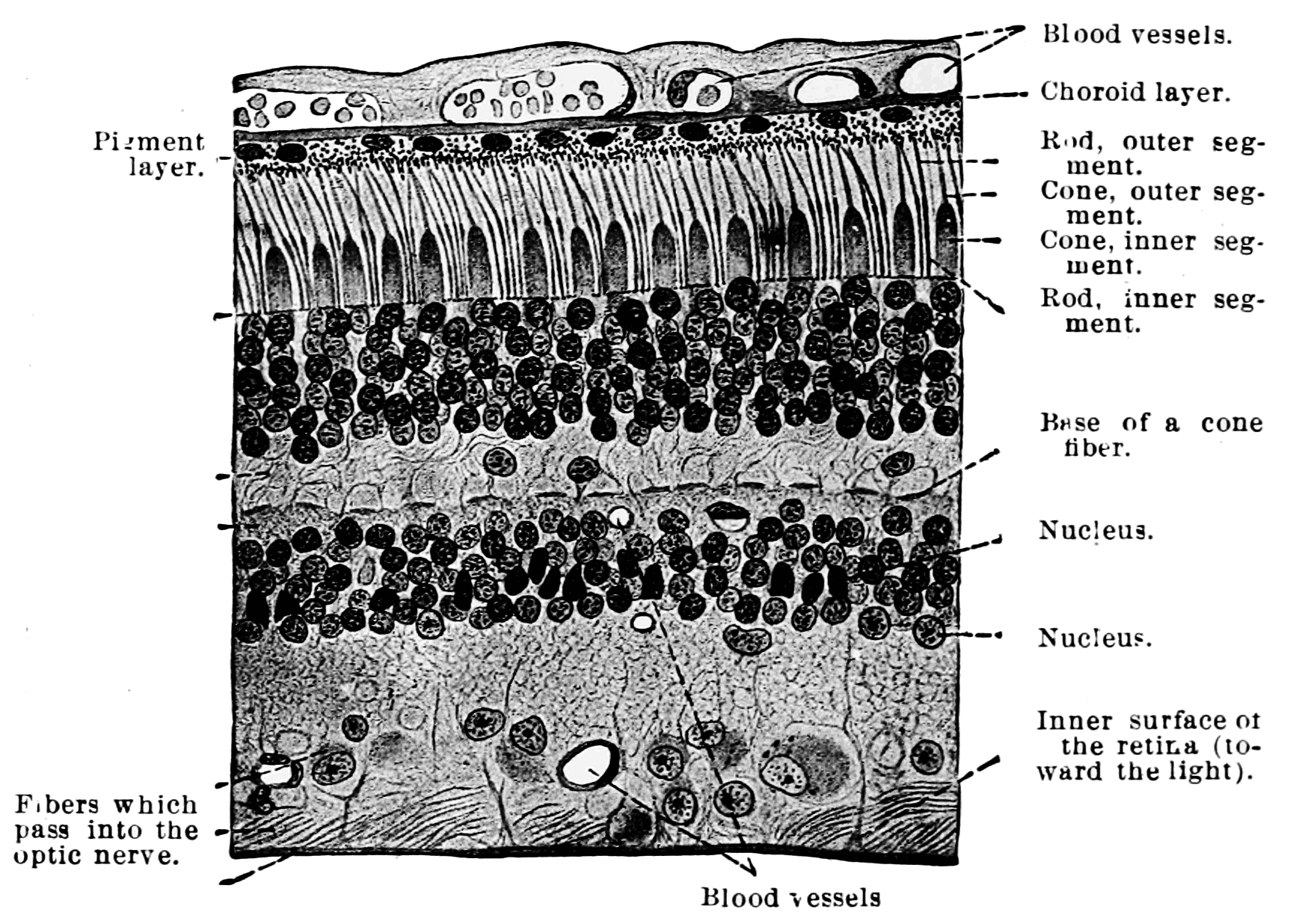 Section of the human retina